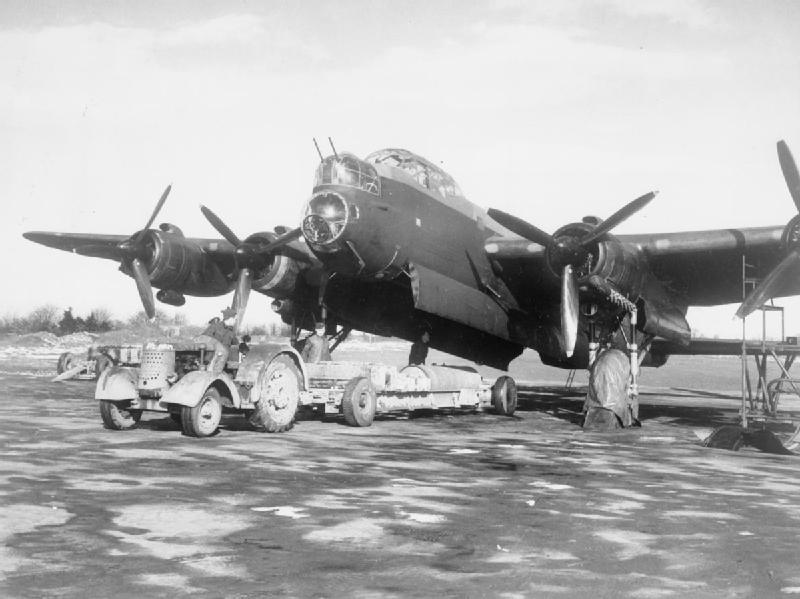 IWM caption : Avro Lancaster B Mark II, LL725 'EQ-C', of No. 408 Squadron RCAF, on the ground at Linton-on-Ouse, Yorkshire. Armourers are backing a tractor and trolley loaded with a 4,000 lb HE bomb ('Cookie') and incendiaries under the open bomb-bay. LL725 was lost over Hamburg on 28/29 July 1944.